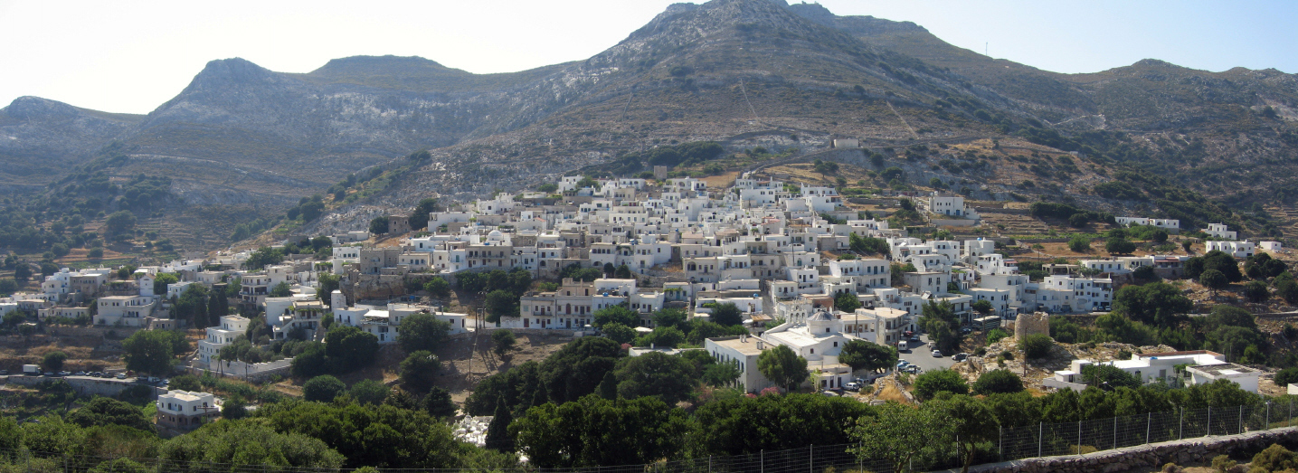 Picture taken by Ioannis Zevgolis.